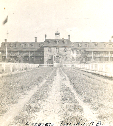 The second Hôtel-Dieu (Lazaretto) of Tracadie, after 1896.